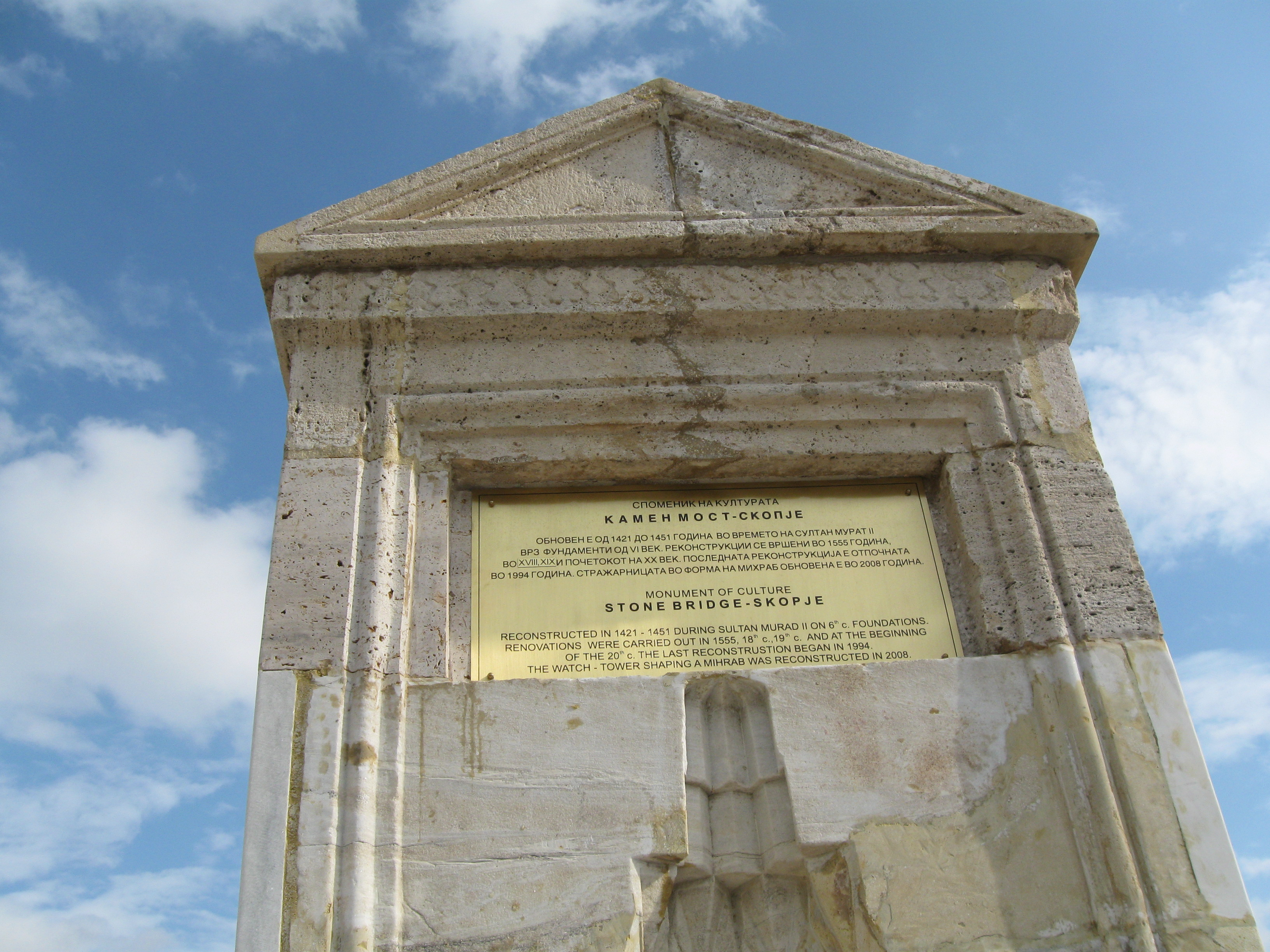 A symbol of Skopje